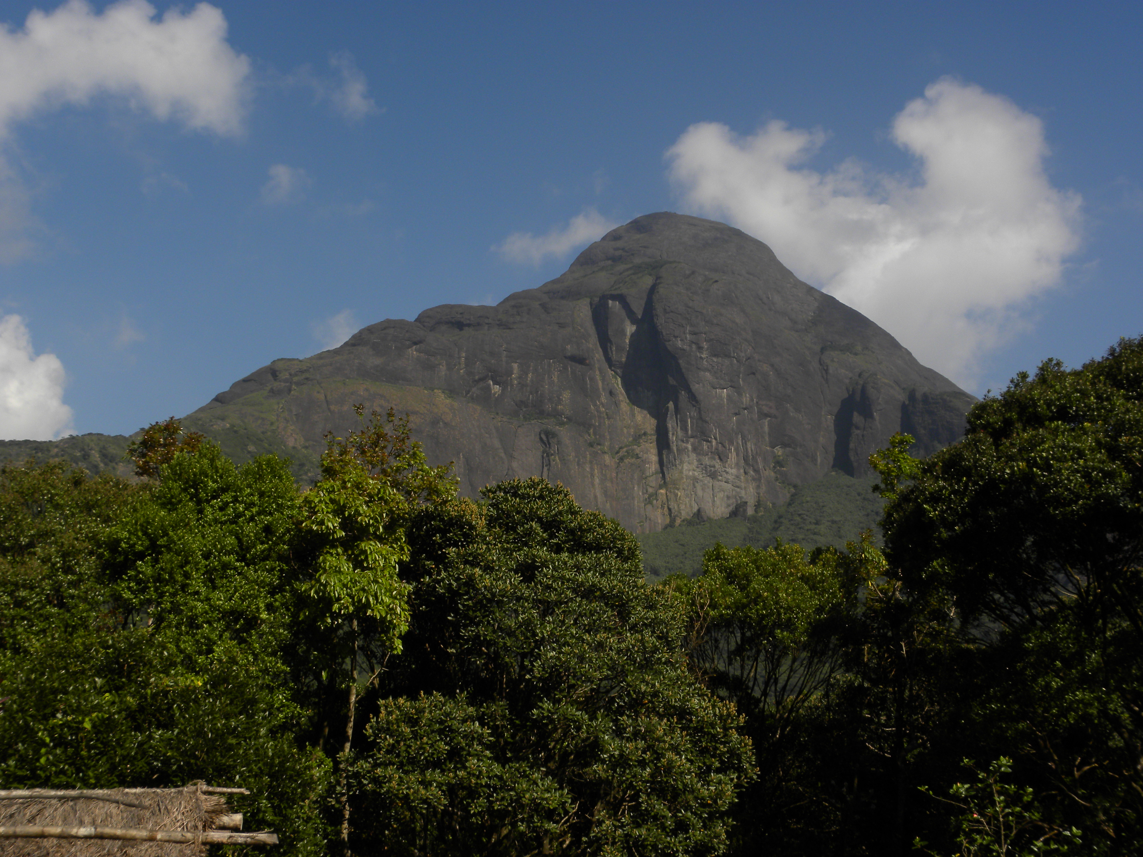 Agastyamala (also known as Agastyarkoodam or Agasthyakoodam) is a 1,868 metres (6,129 ft) peak within Neyyar Wildlife Sanctuary, Kerala in the Western Ghats of South India. A view from Athirumala base camp.